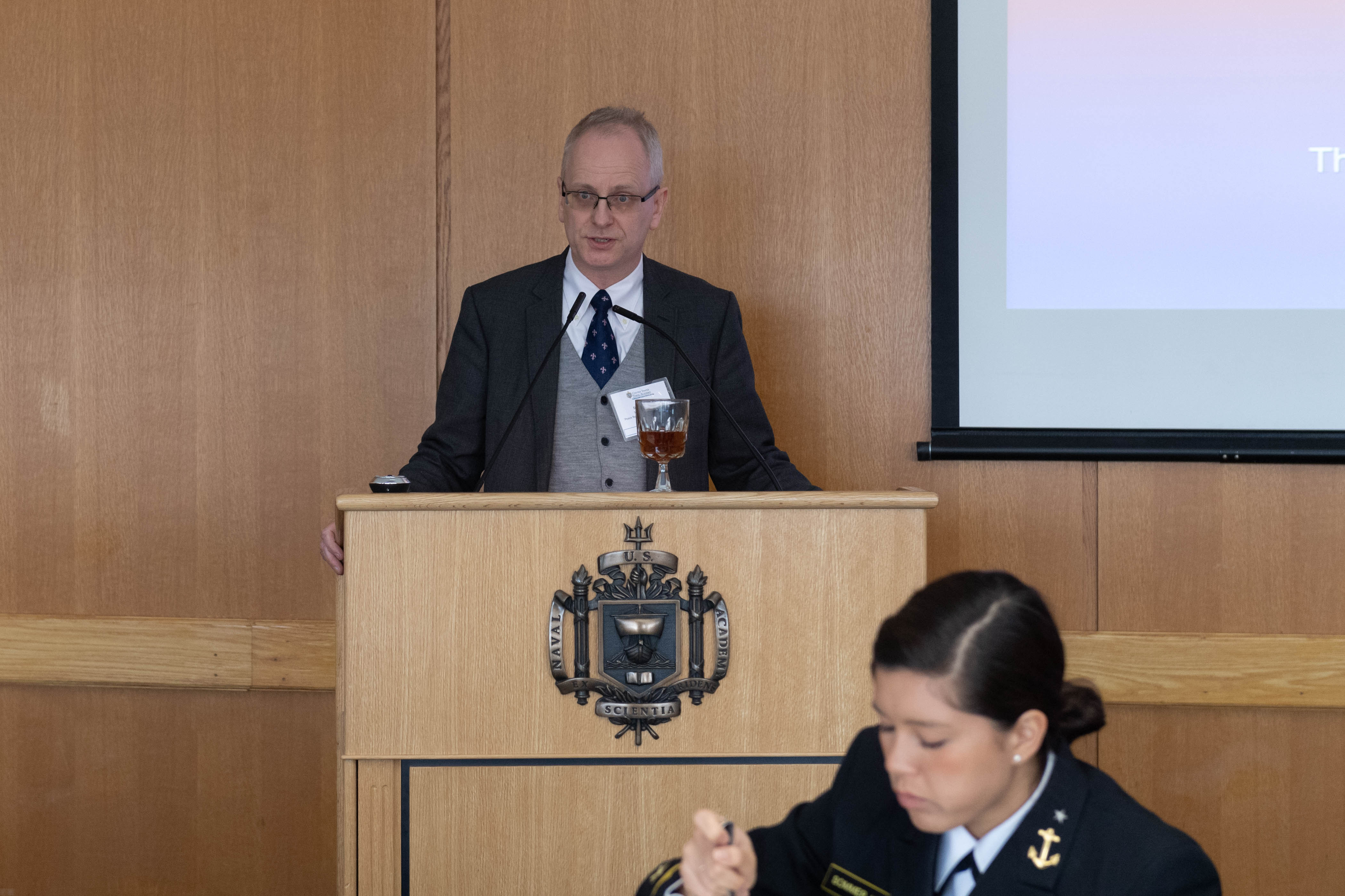 19th Annual McCain Conference; "Moral Virtue and Moral Injury"; Keynote Speaker: Dr. Henrik Syse, Peace Research Institute Oslo (PRIO)